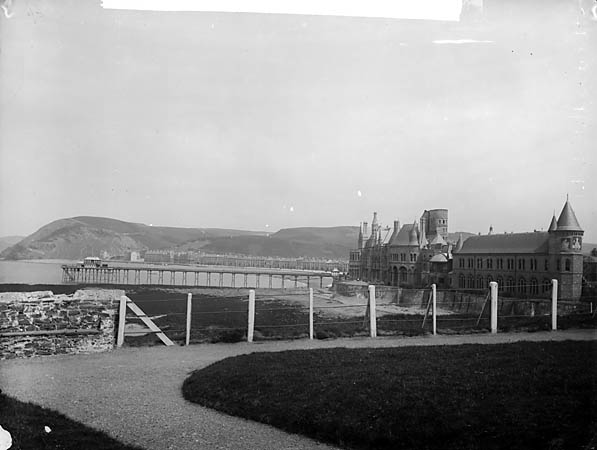 Teitl Cymraeg/Welsh title: Y coleg, Aberystwyth Ffotograffydd/Photographer: John Thomas (1838-1905) Dyddiad/Date: [ca. 1885] Cyfrwng/Medium: Negydd gwydr / Glass negative Maint/Dimensions: 16.5 x 21.5 cm. Cyfeiriad/Reference: jth00329 Rhif cofnod / Record no.: 3361280 Rhagor o wybodaeth am gasgliad John Thomas yn Llyfrgell Genedlaethol Cymru More information about the John Thomas Collection at the National Library of Wales Mae ffotograffau John Thomas hefyd yn rhan o Broject Europeana Libraries John Thomas' photographs also form part of the Europeana Libraries Project